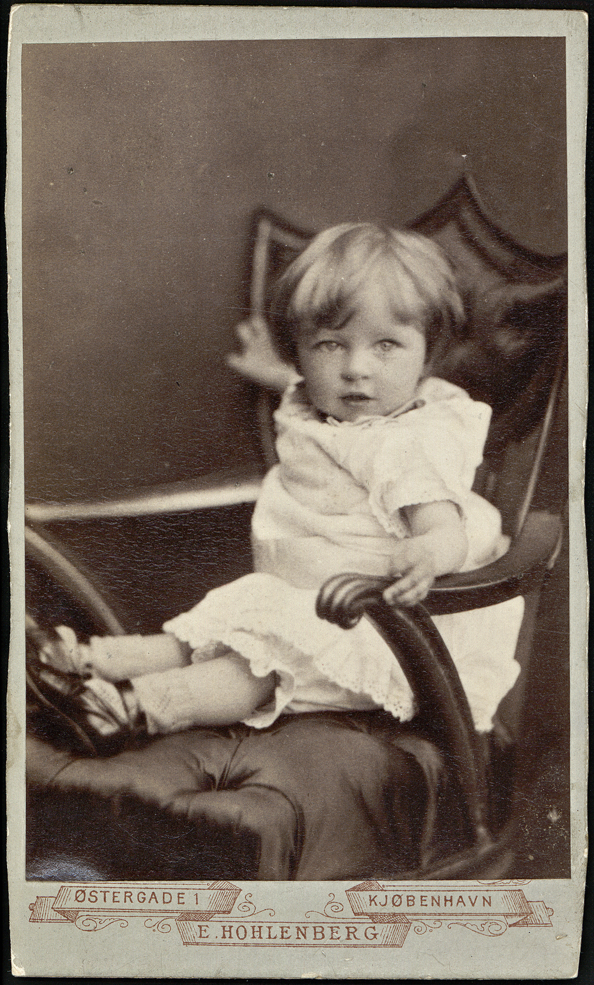 Tittel / Title: Portrett av Sigrid Undset som barn, ca 1883 Motiv / Motif: Visittkort. Dato / Date: ca 1883 Fotograf / Photographer: E. Hohlenbergs Fotografiske Gallerie (Kjøbenhavn) Sted / Place: Danmark, København Eier / Owner Institution: Nasjonalbiblioteket / National Library of Norway Lenke / Link: Bildesignatur / Image Number: blds_02024